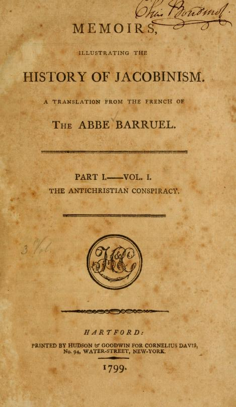 Title Page of the First Edition of Memoirs Illustrating the History of Jacobinism, 1789.